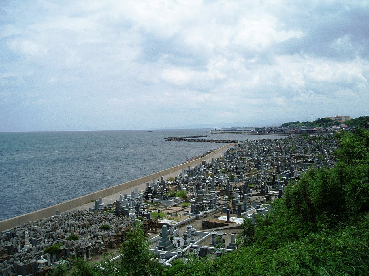 Hanamigata Cemetery in Akasaki, Kotoura, Tottori, Japan.